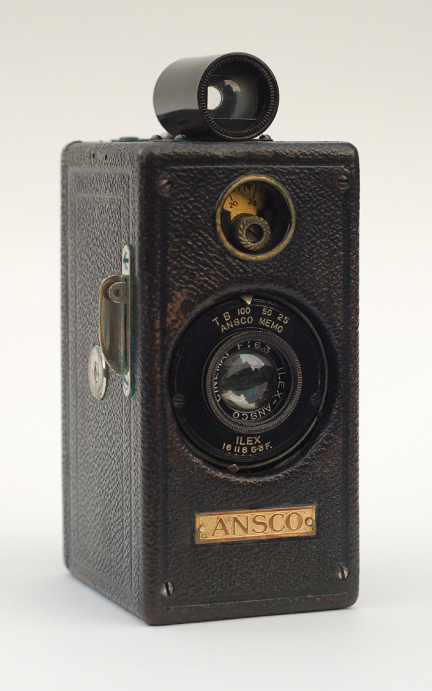 This is a half-frame 35mm camera, made of wood and covered with leather. The Memo was originally introduced in December 1926 with a non-covered wooden body and brass fittings. A few months later, a second version was produced, with nickel-plated fittings and the leather covering. The shutter release guard, seen here on the left side of the camera, was added at the end of 1927, preventing accidental exposures from being made upon removing the camera from its case. The Memo had a wire carrying handle, which has been removed from this example. serial number 2807